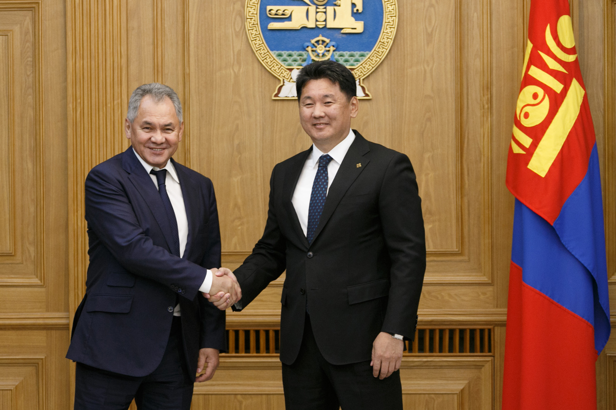 Министр обороны России провел в Улан-Баторе переговоры с премьер-министром Монголии